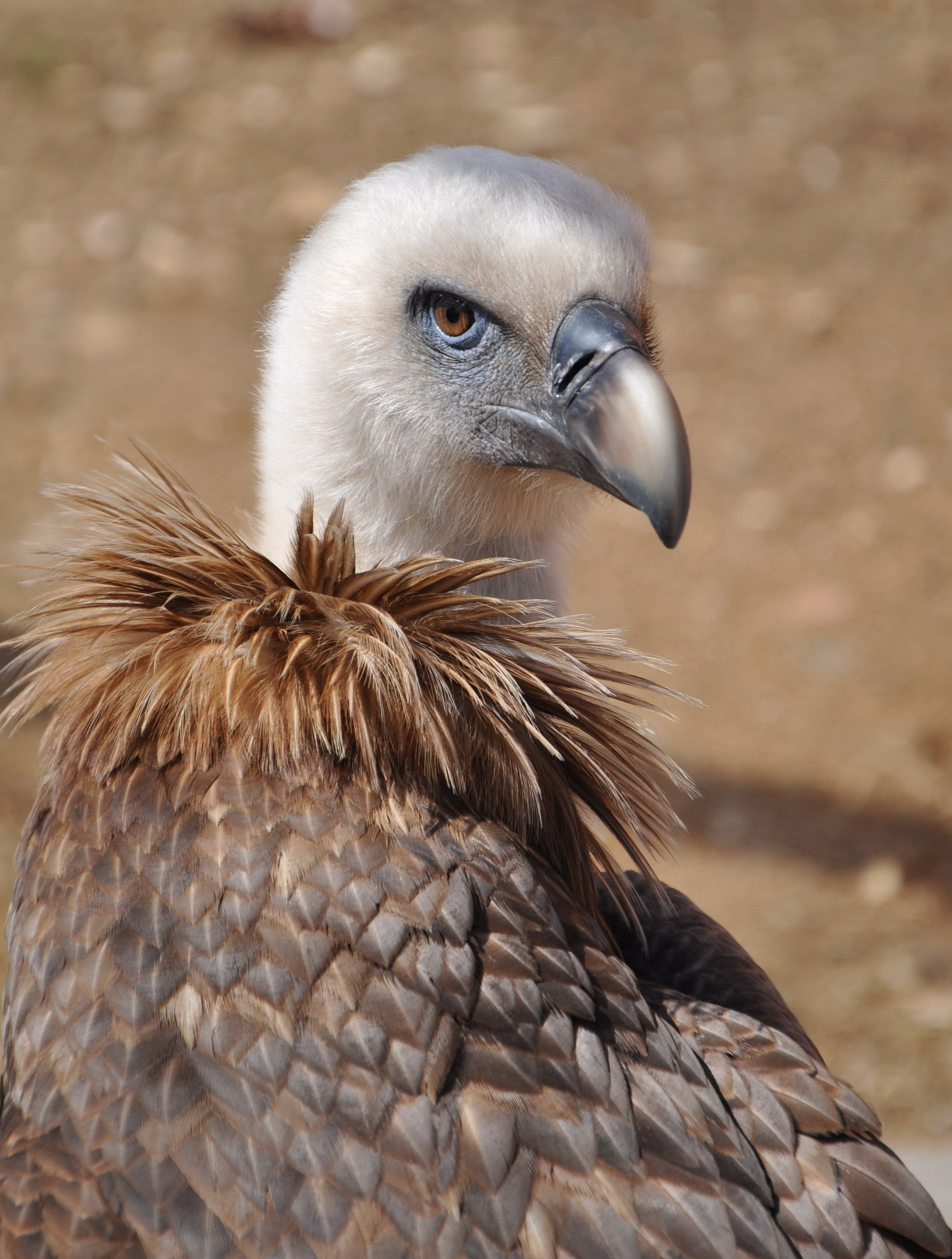 Griffon vulture (Gyps fulvus) in the zoo, Rostov-on-don, Russia.Griffon vulture (Gyps fulvus)- the largest representative of the family of vultures. Like other vultures , it is a scavenger , its food - corpses of large animals.